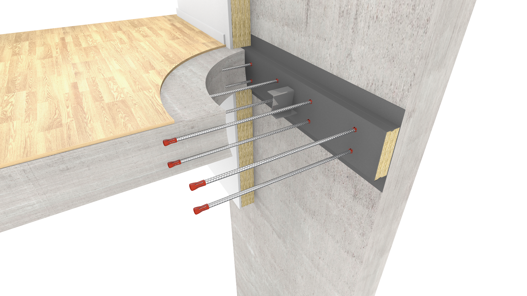 coupe 3D sur voile